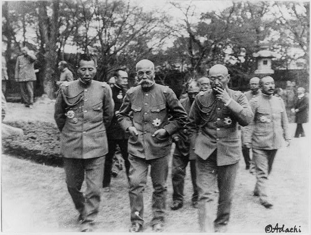 General Ken-ichi Oshima (center), 1858-1947, Minister of War, walking with Generals Tanaka (left) and Uehara (right), 1918. (Giichi Tanaka, 1863-1929; Yusaku Uehara, 1856-1933. Kenichi Oshima. Japan.)